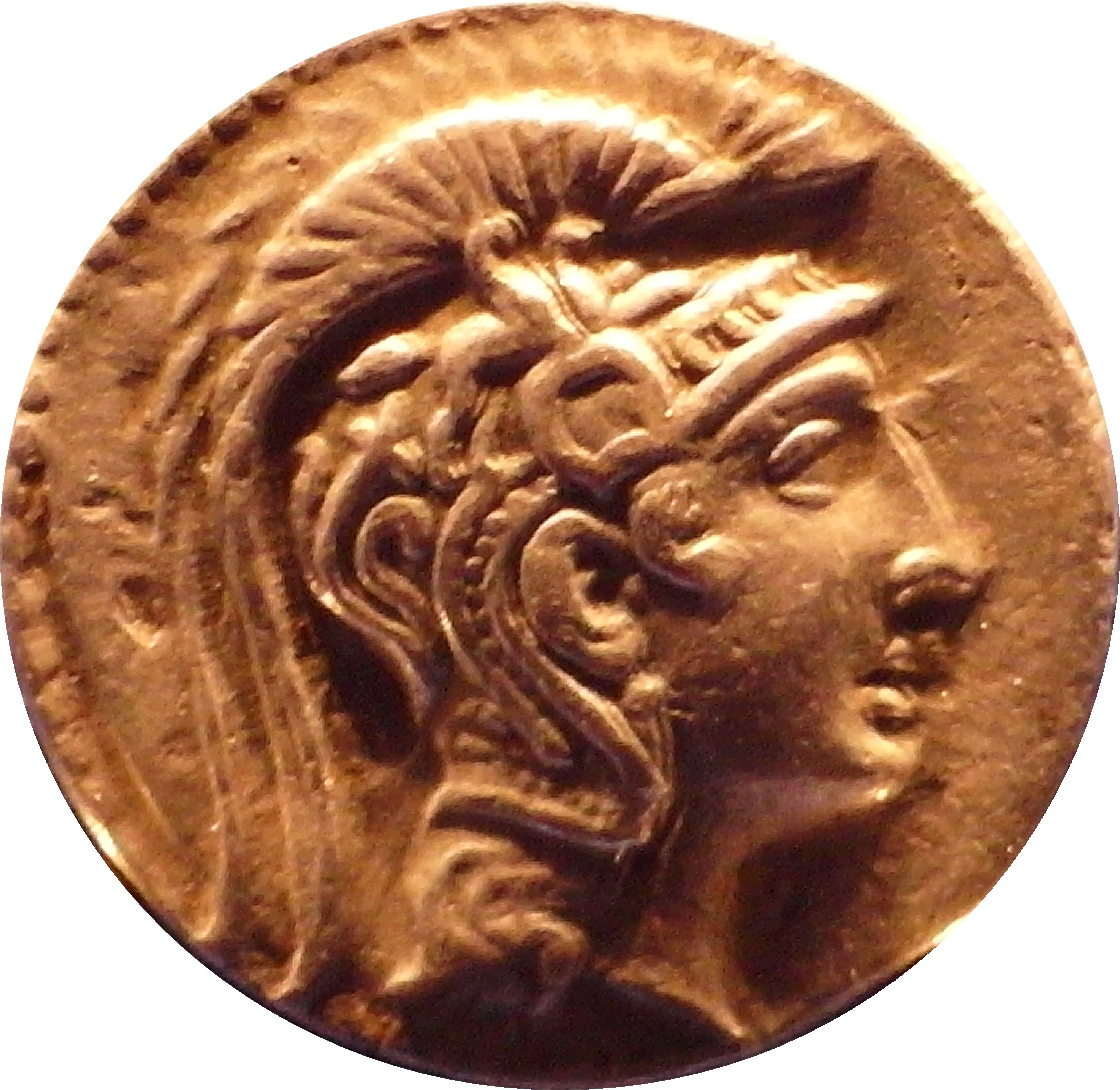 Tetradrachm of Athens, 126-125 BC, head of Fidias sculpture Athena Parthenos